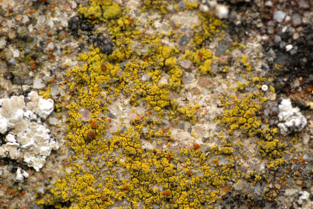 Candelariella coralliza from Commanster, Belgium. If you think this is a different taxon, please contact James Lindsey.